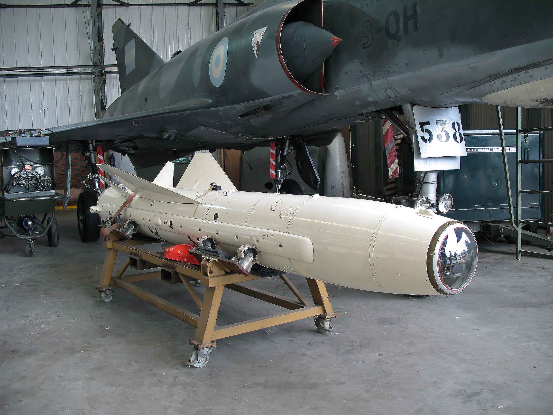 A Martel TV-guided missile display round photographed at RAF Elvington on the 18 of August 2007 by Brian Burnell. In the background is an ex-French Mirage jet fighter in Argentine colours.